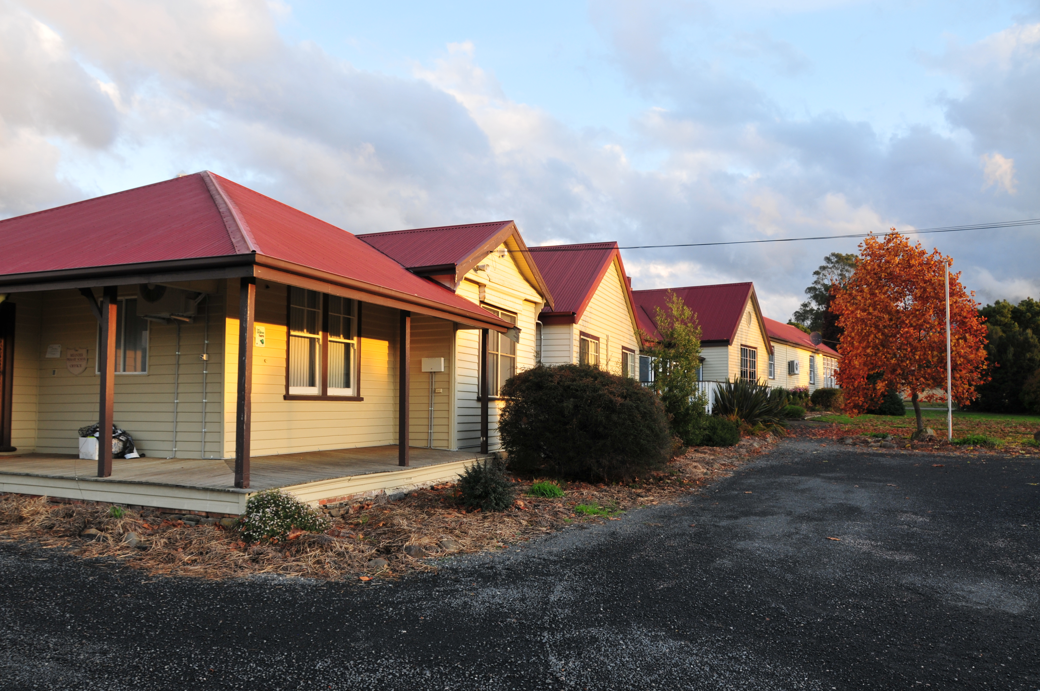 Meander Primary School Tasmania, side view, Meander Tasmania